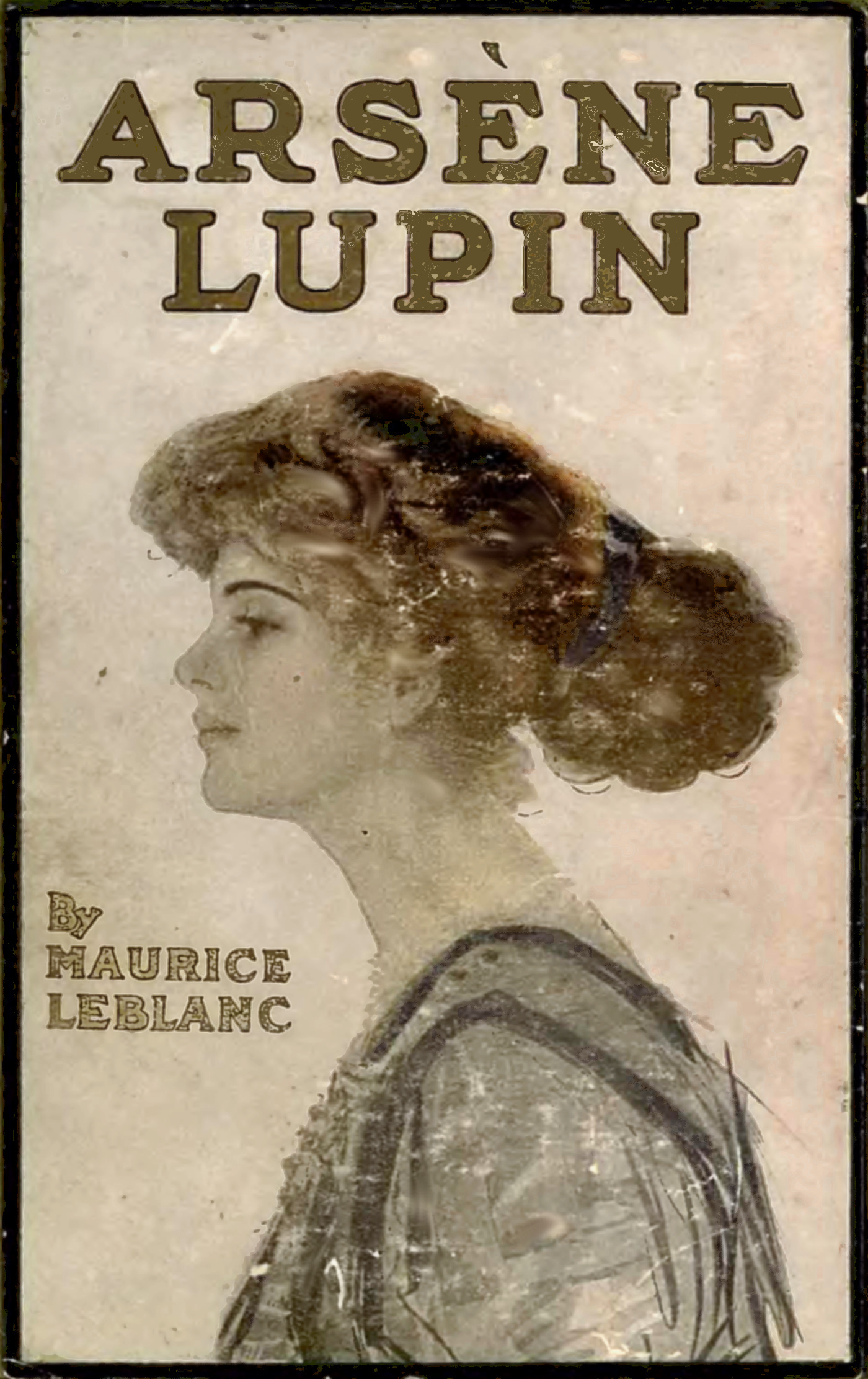 Illustrations from the book, Arsène Lupin, written by Maurice Lebanc, illustrated by Edgar Jepson